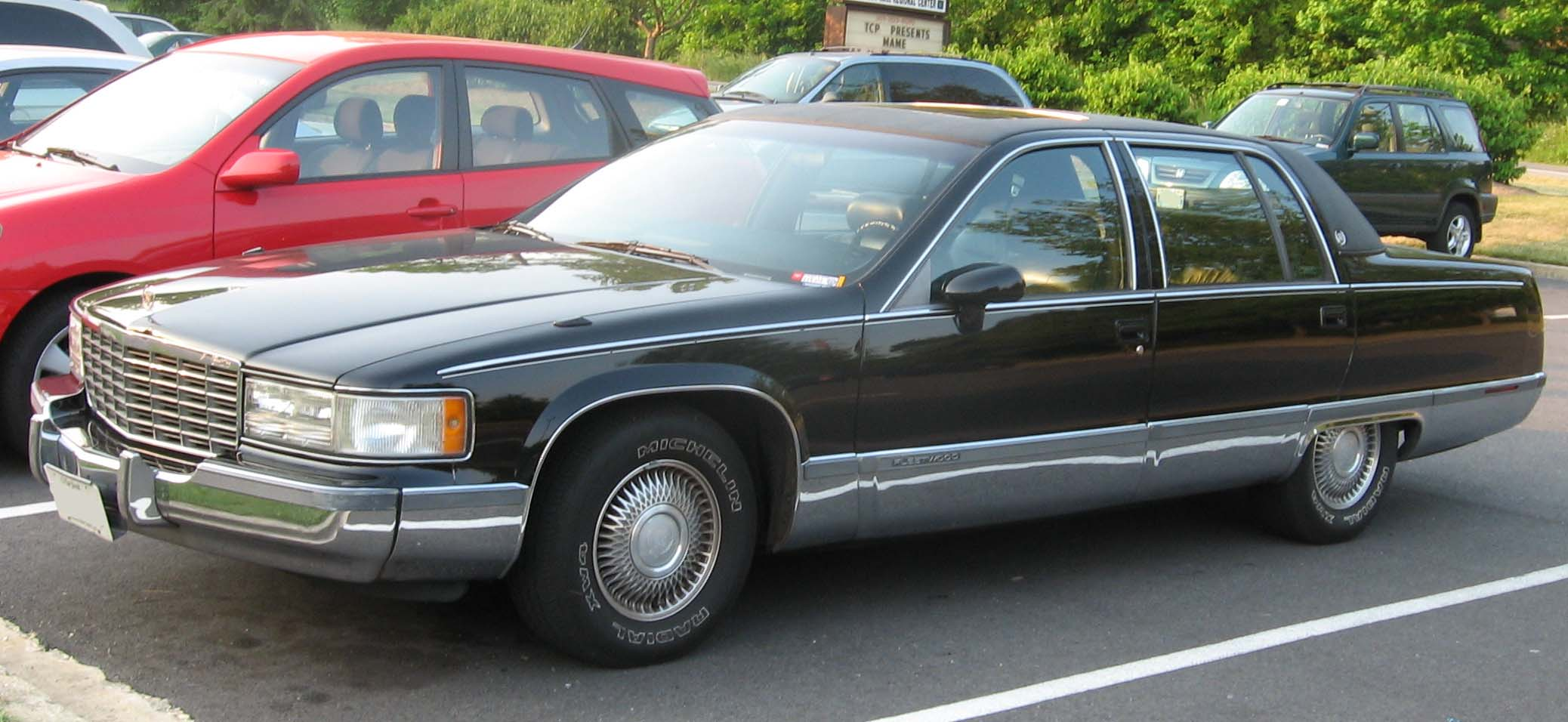 1993-1996 Cadillac Fleetwood photographed in USA.